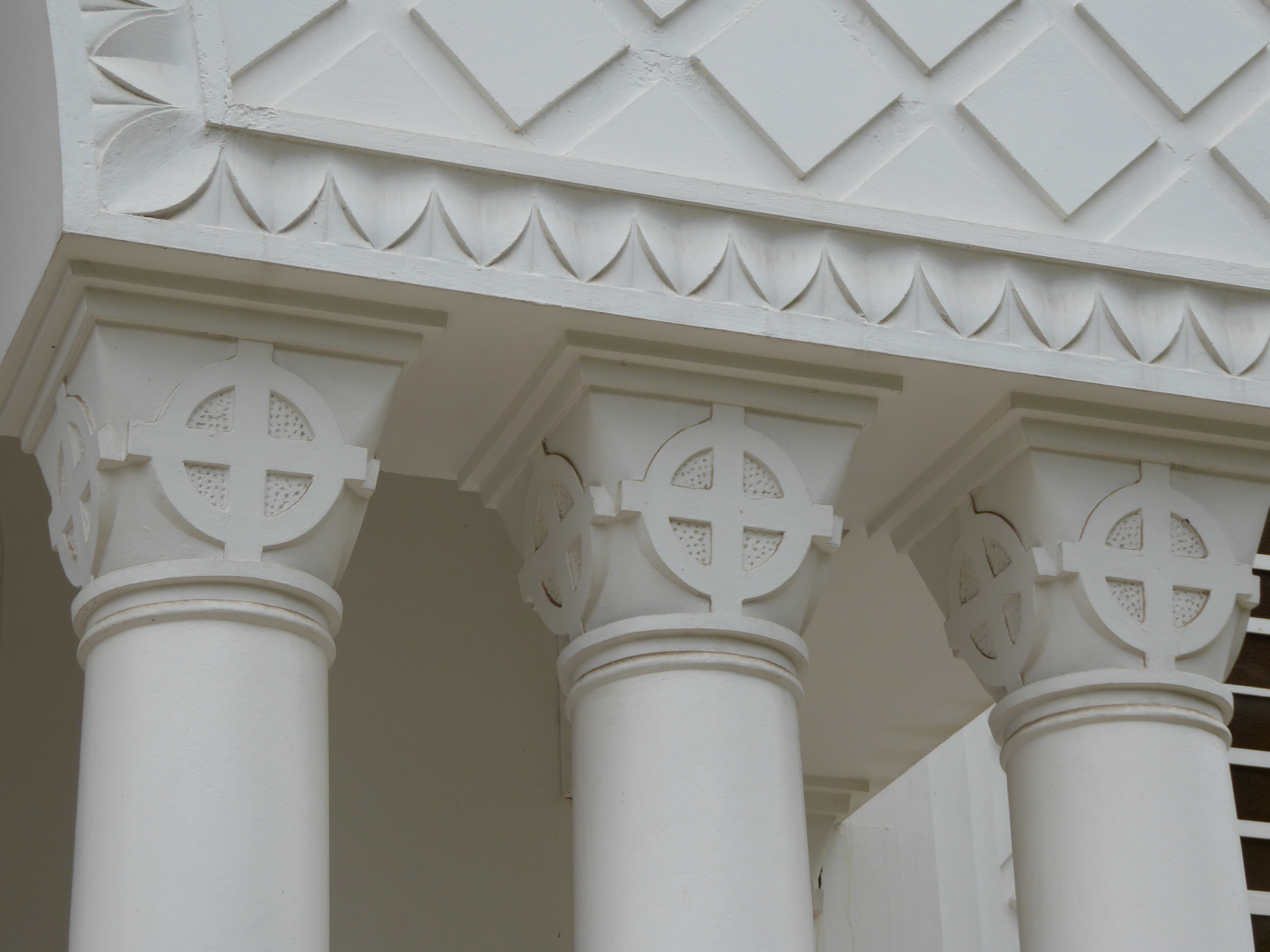 Column detail of the Orthodox Cathedral Archangels Michael and Gabriel, Maputo, Mozambique